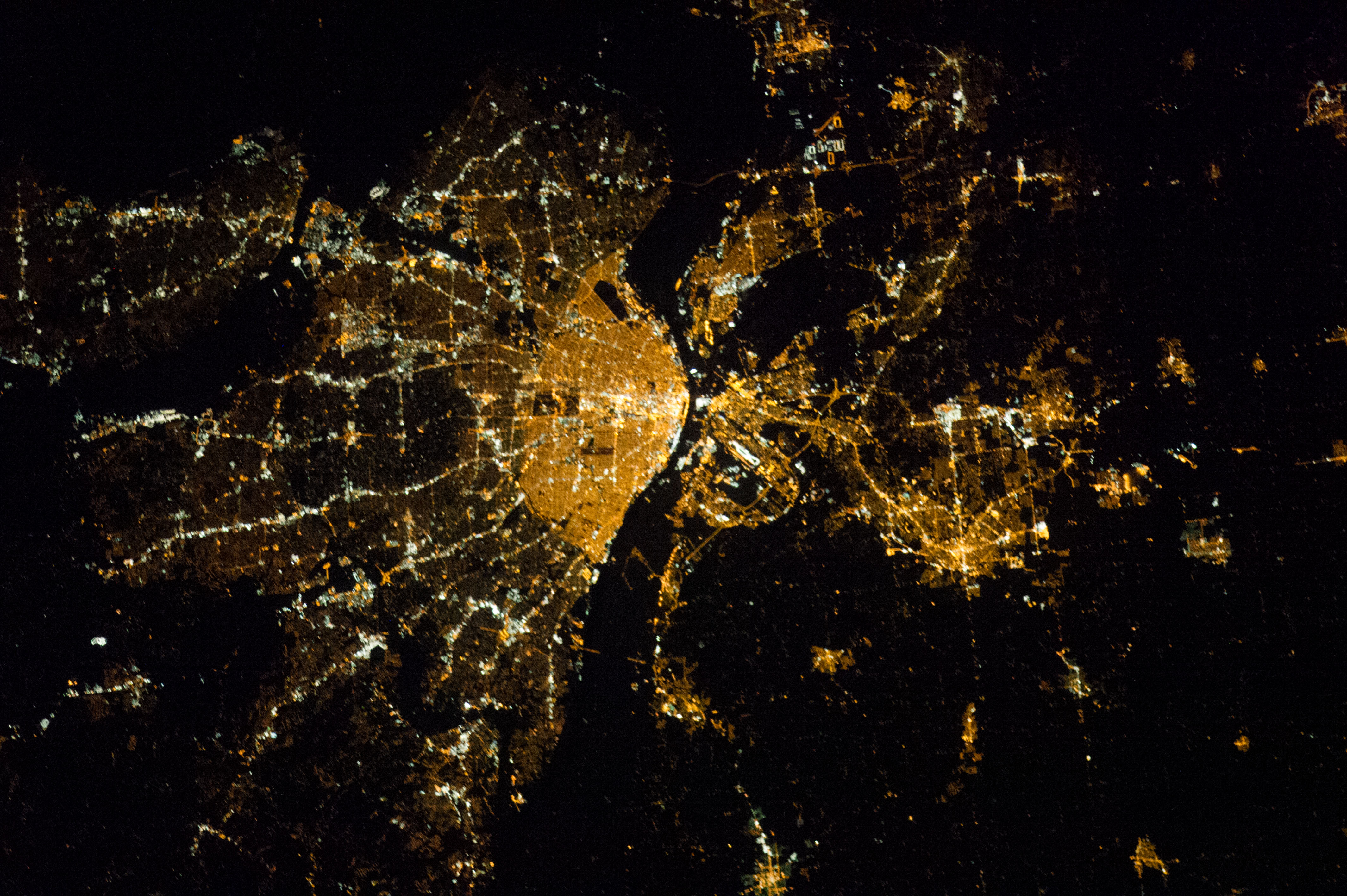 One of the Expedition 38 crew members aboard the Earth-orbiting International Space Station photographed this night image of St. Louis, Missouri and East St. Louis, Illinois and surrounding area on Dec. 7, 2013. North is at the bottom of the picture, with the Mississippi River separating Missouri on the right (west) and Illinois on the east (left). Belleville, Illinois is also visible.